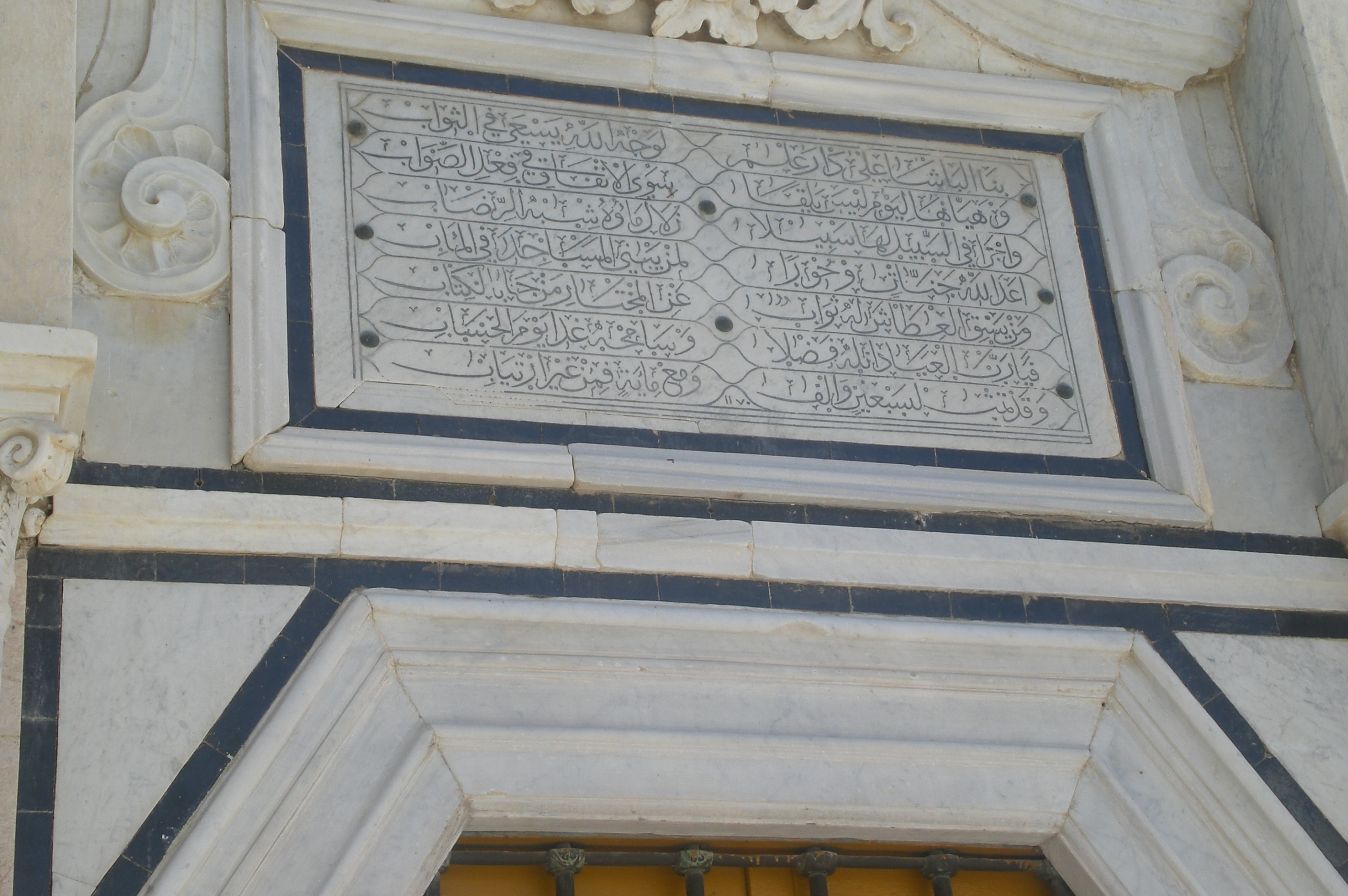 Inscription of Bir Lahjar Medersa-Tunis